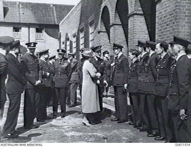 England. C. 1943. Portrait of the King and Queen on a visit to RAF Station Binbrook, at which No. 460 (Lancaster) Squadron RAAF is based. No RAAF personnel appear in the picture but second from the left is Group Captain Hughie I. Edwards VC DSO DFC of Perth WA, RAF, who is the station Commanding Officer.